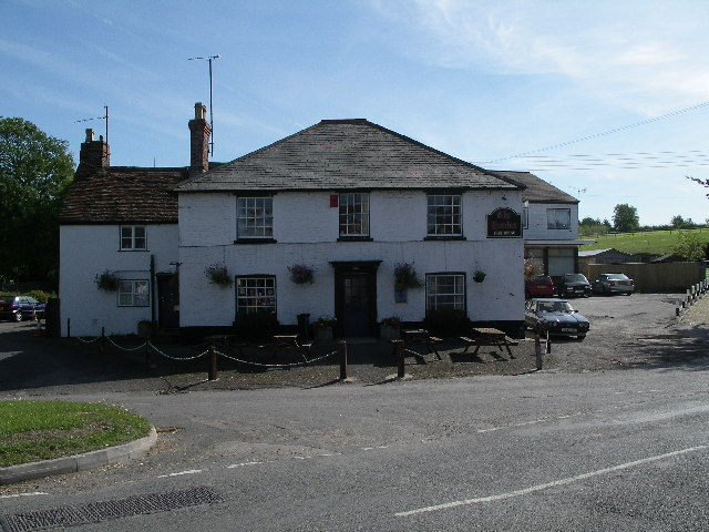 The Hatchet, Childrey, Oxfordshire. The last pub in the village; it ceased trading in 2016.